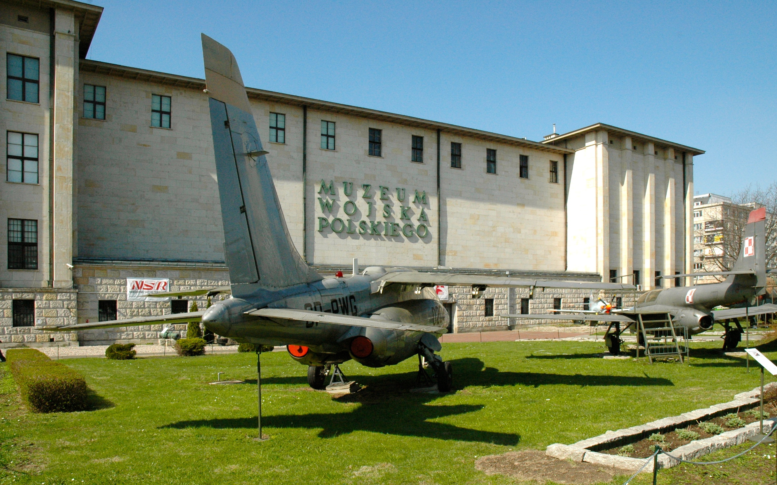 Main building of the Polish Military Museum (Muzeum Wojska Polskiego), Warsaw, Poland